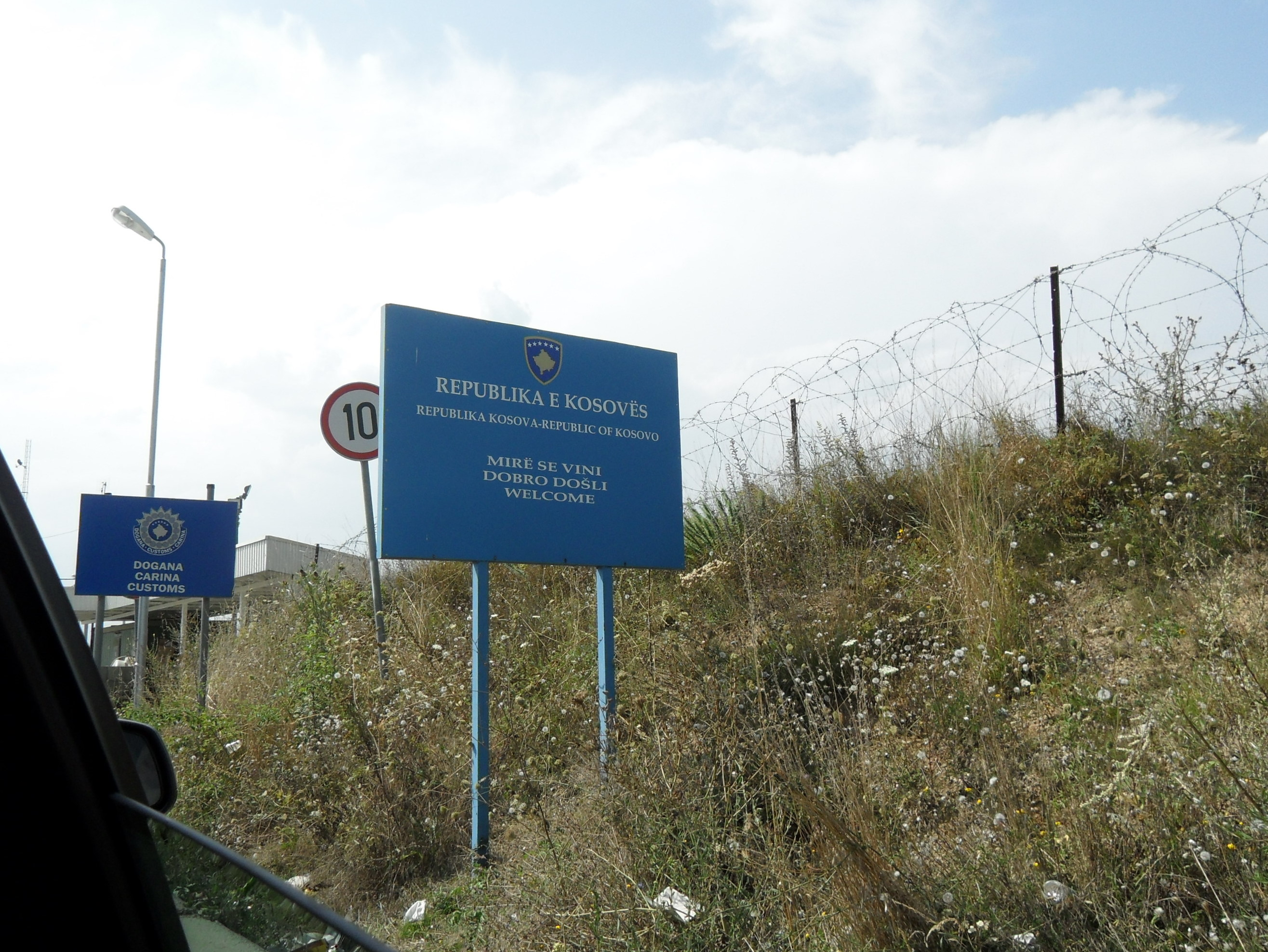 Border between Serbia and Kosovo, sign on E80 road